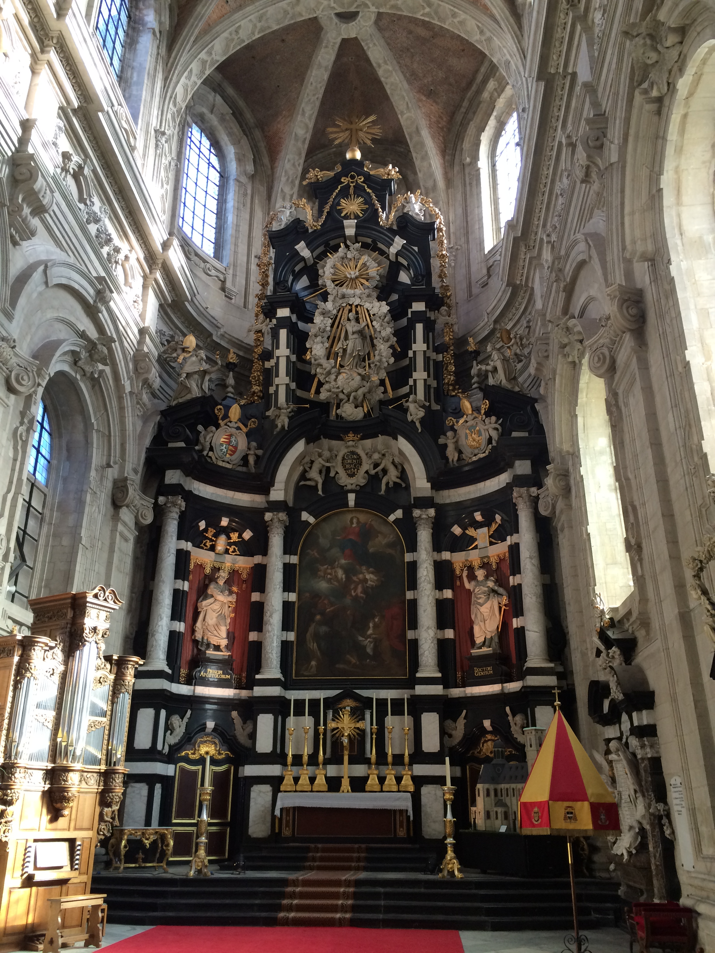 High altar of the Grimbergen Abbey